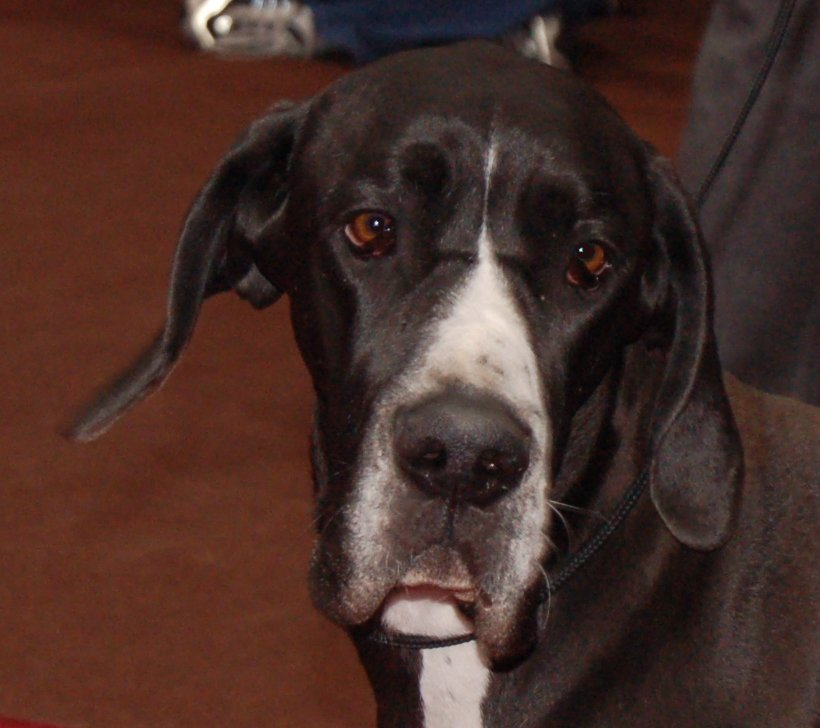 Great Dane during dogs show in Katowice, Poland